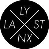 Last Lynx Logo in black and white.